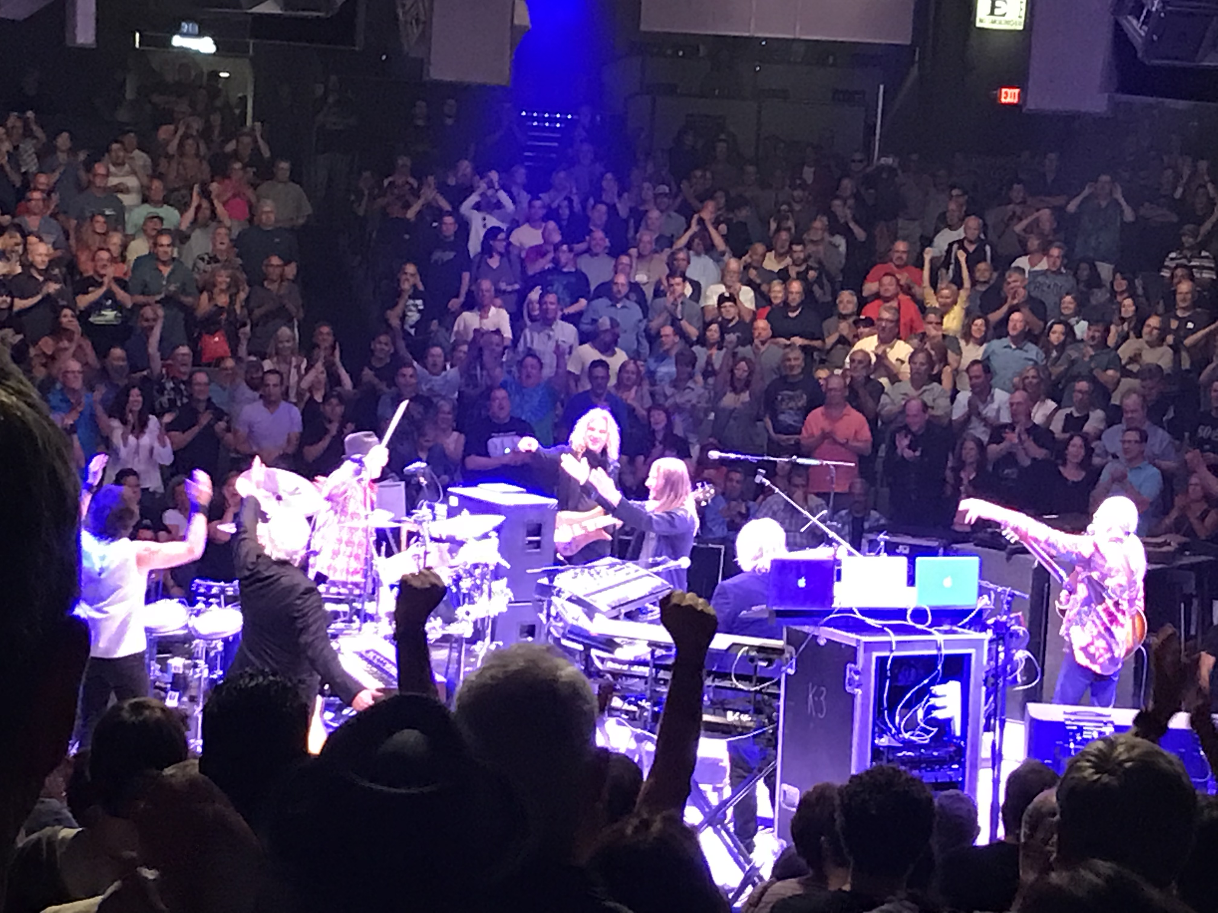 Yes Performance for their 50th anniversary